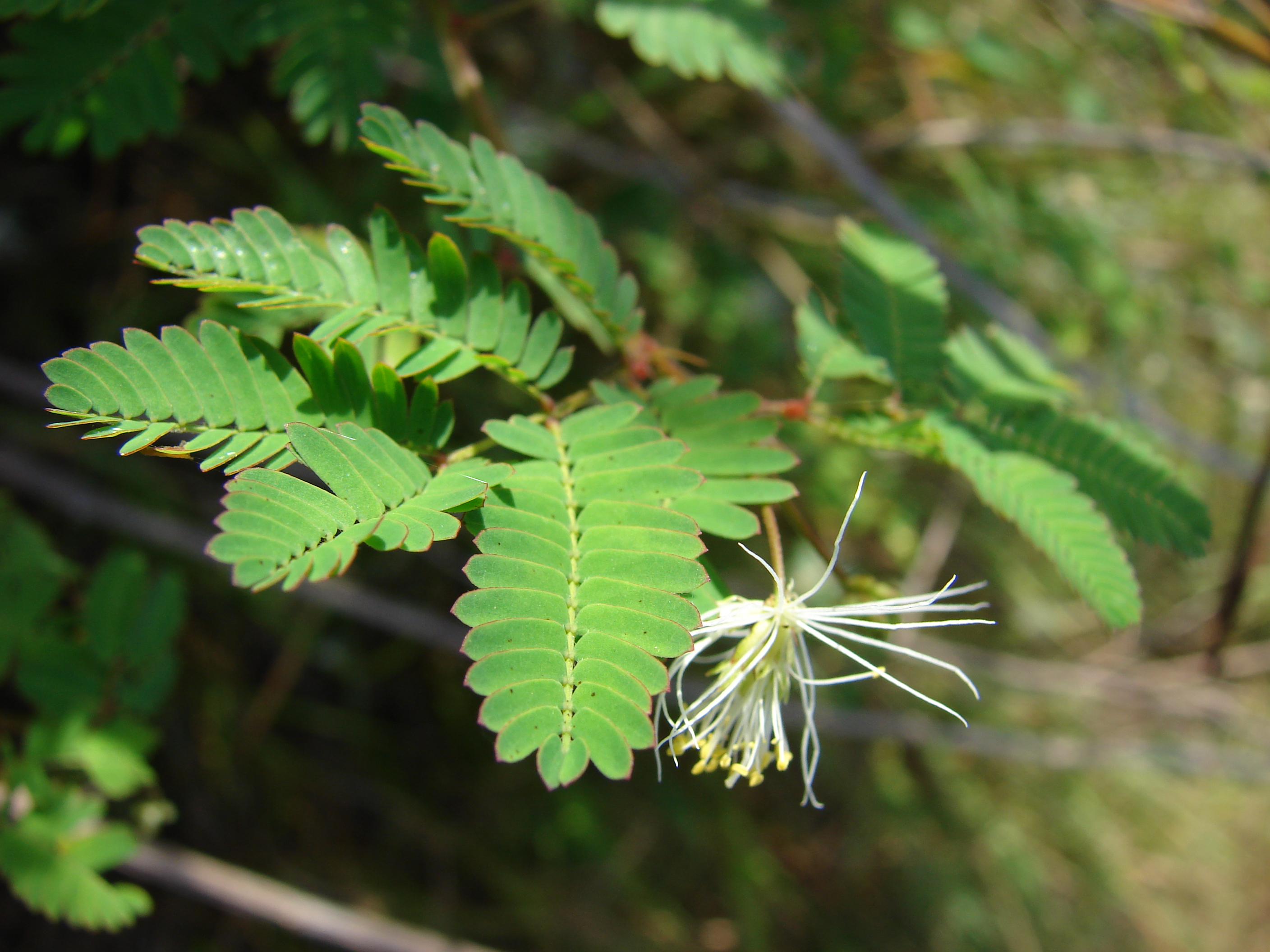 Desmanthus pernambucanus (flowers and leaves). Location: Midway Atoll, Cargo pier Sand Island